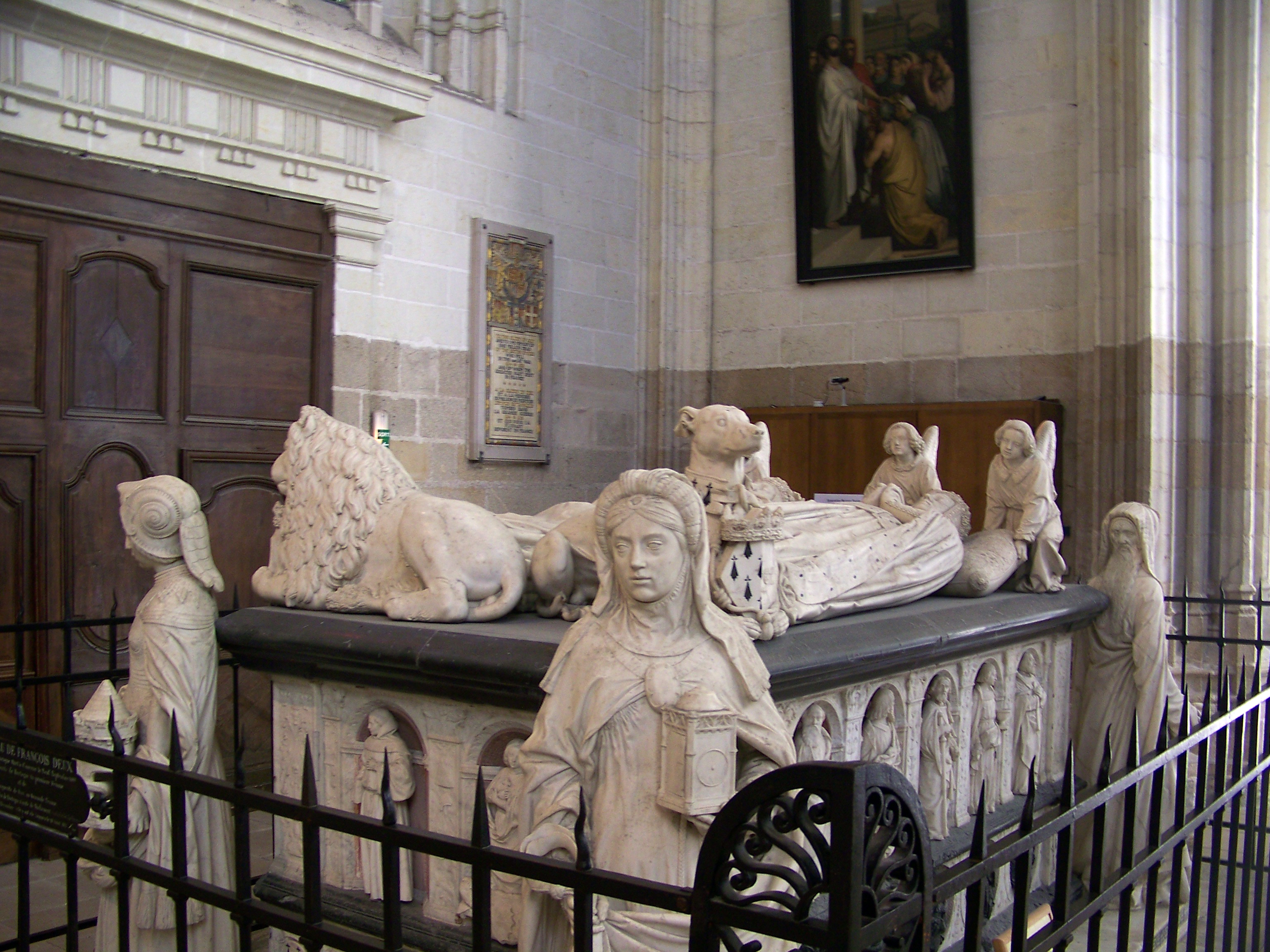 Tomb of François II de Bretagne and Marguerite de Foix, in the Cathédrale Saint-Pierre et Saint-Paul de Nantes (southern transept). It is also the tomb of Marguerite de Bretagne (first spouse of François II) and of Arthur III de Bretagne (uncle of François II).